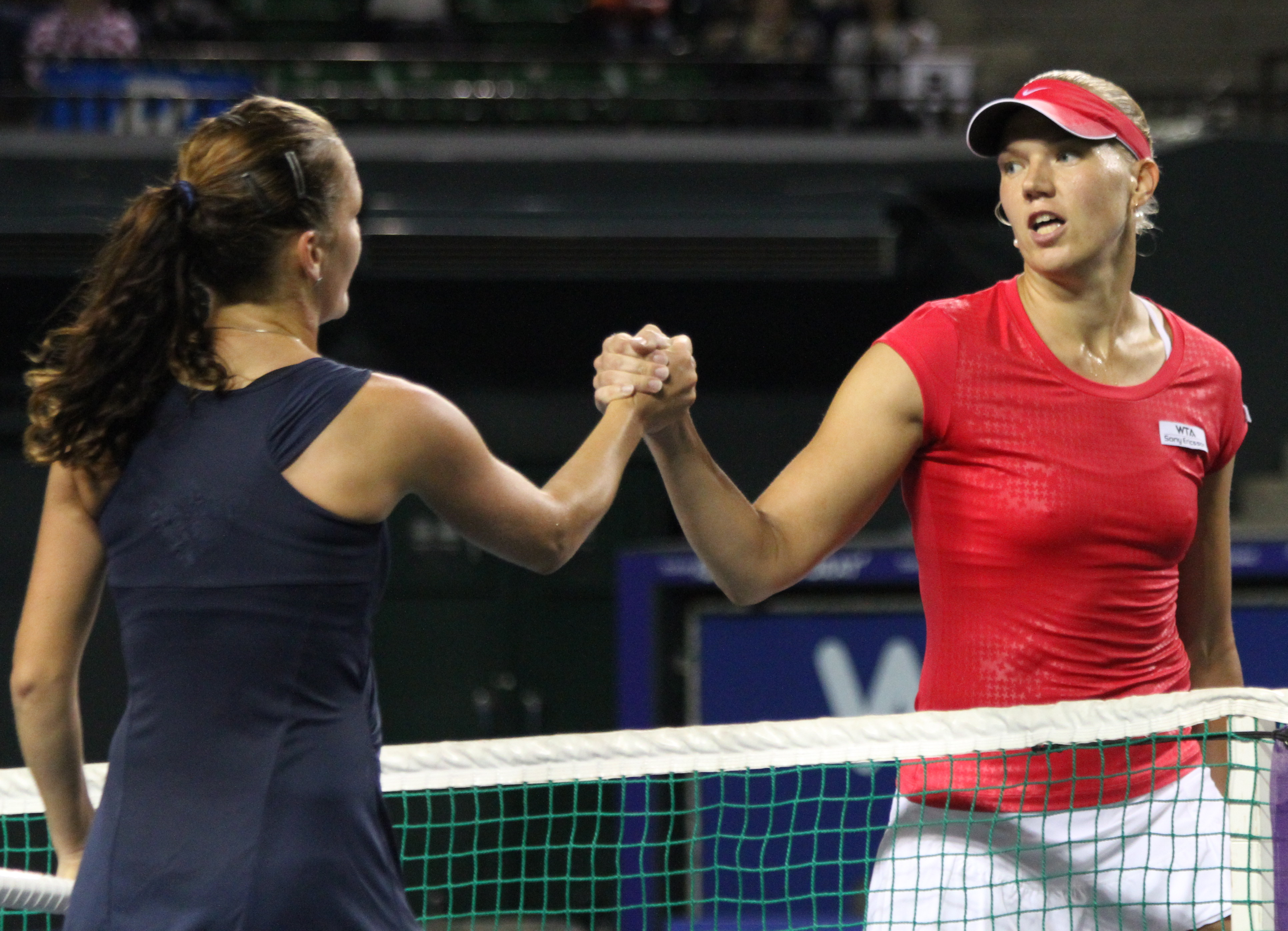 Agnieszka Radwańska and Kaia Kanepi at the 2011 Pan Pacific Open